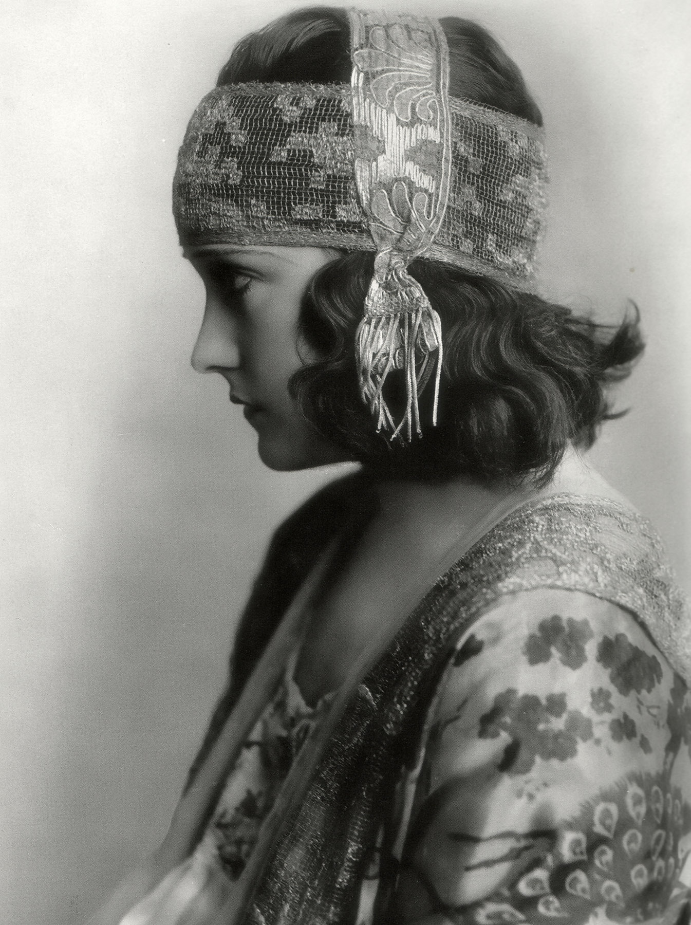 Actress Gloria Swanson in a frame or production still from the film Don't Change Your Husband (1919).